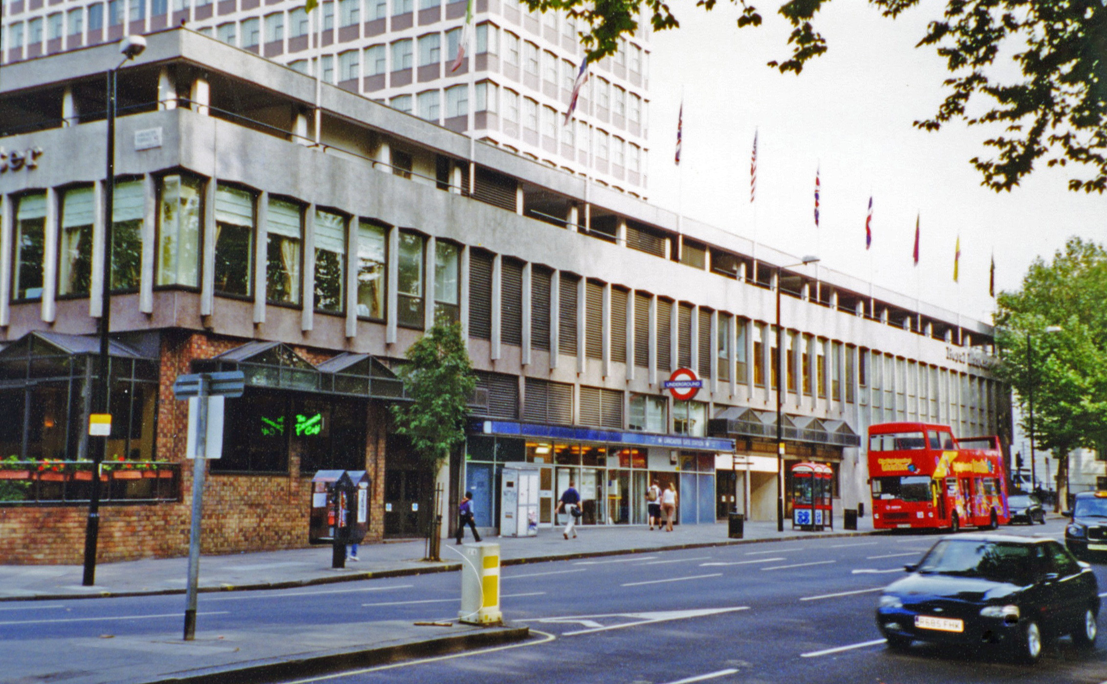 Lancaster Gate Underground station, entrance 2002